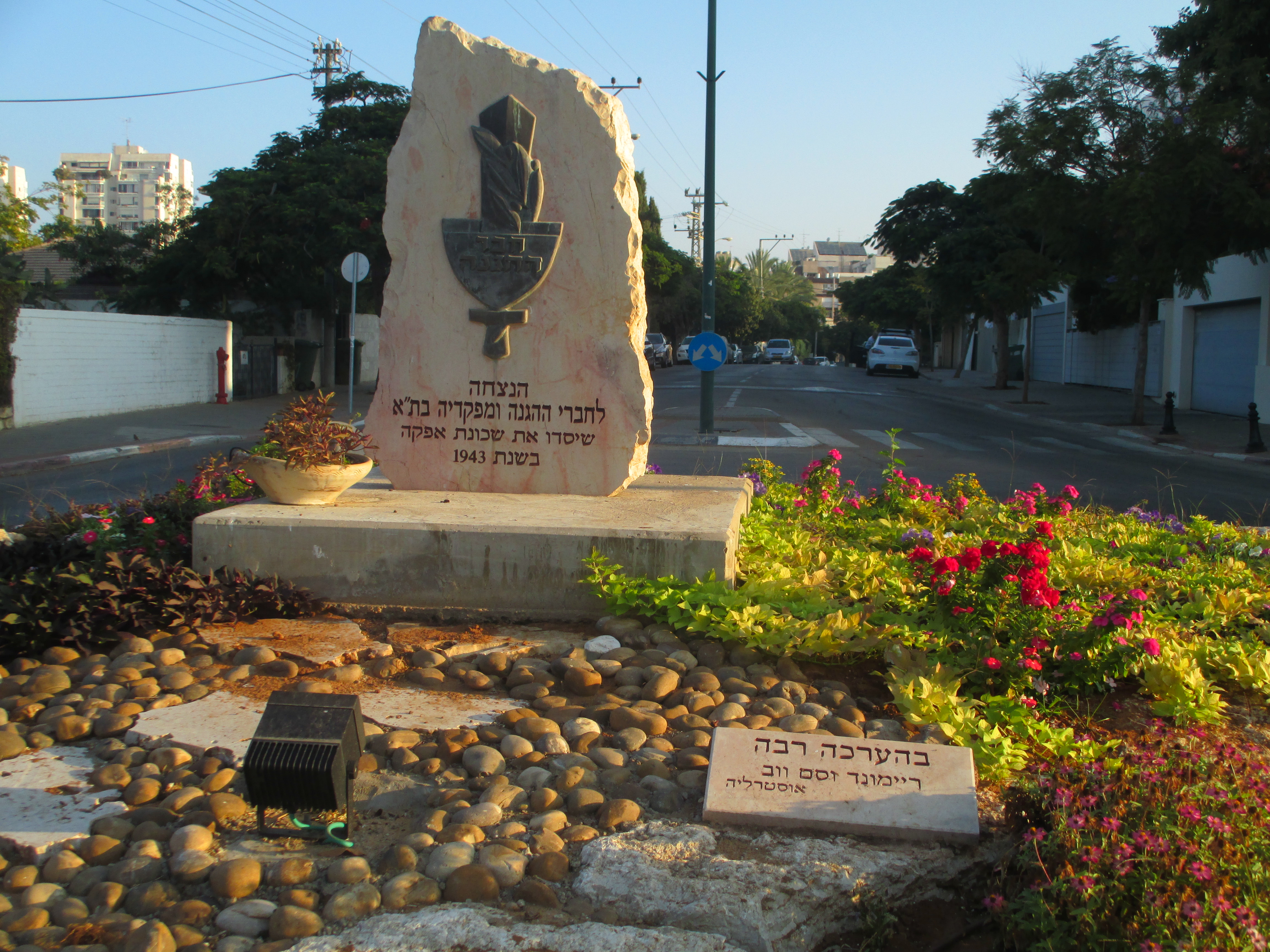 Haganah Square in Tel Aviv